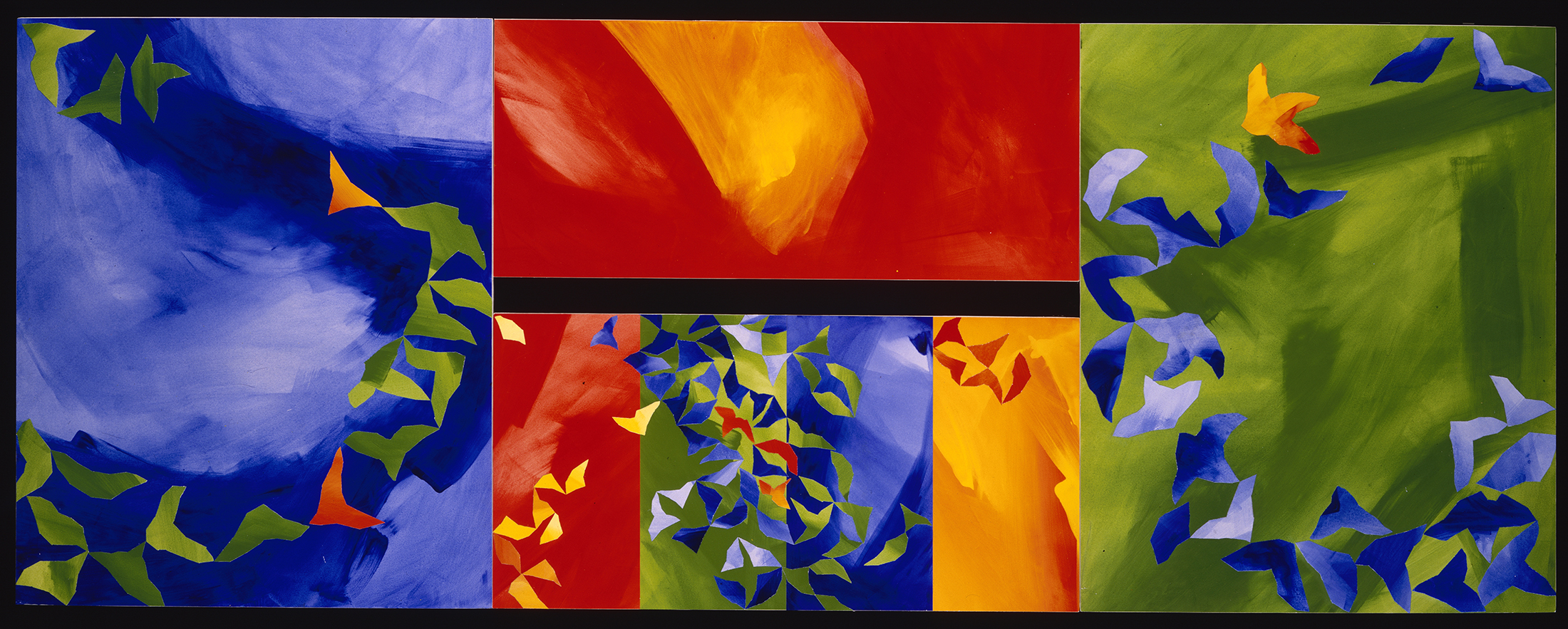 Painted stage set designs by Brian Clarke for the Paul McCartney New World Tour, 1993